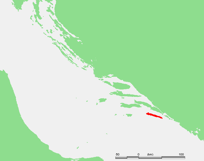 Island of Croatia - Croatia - Mljet.PNG